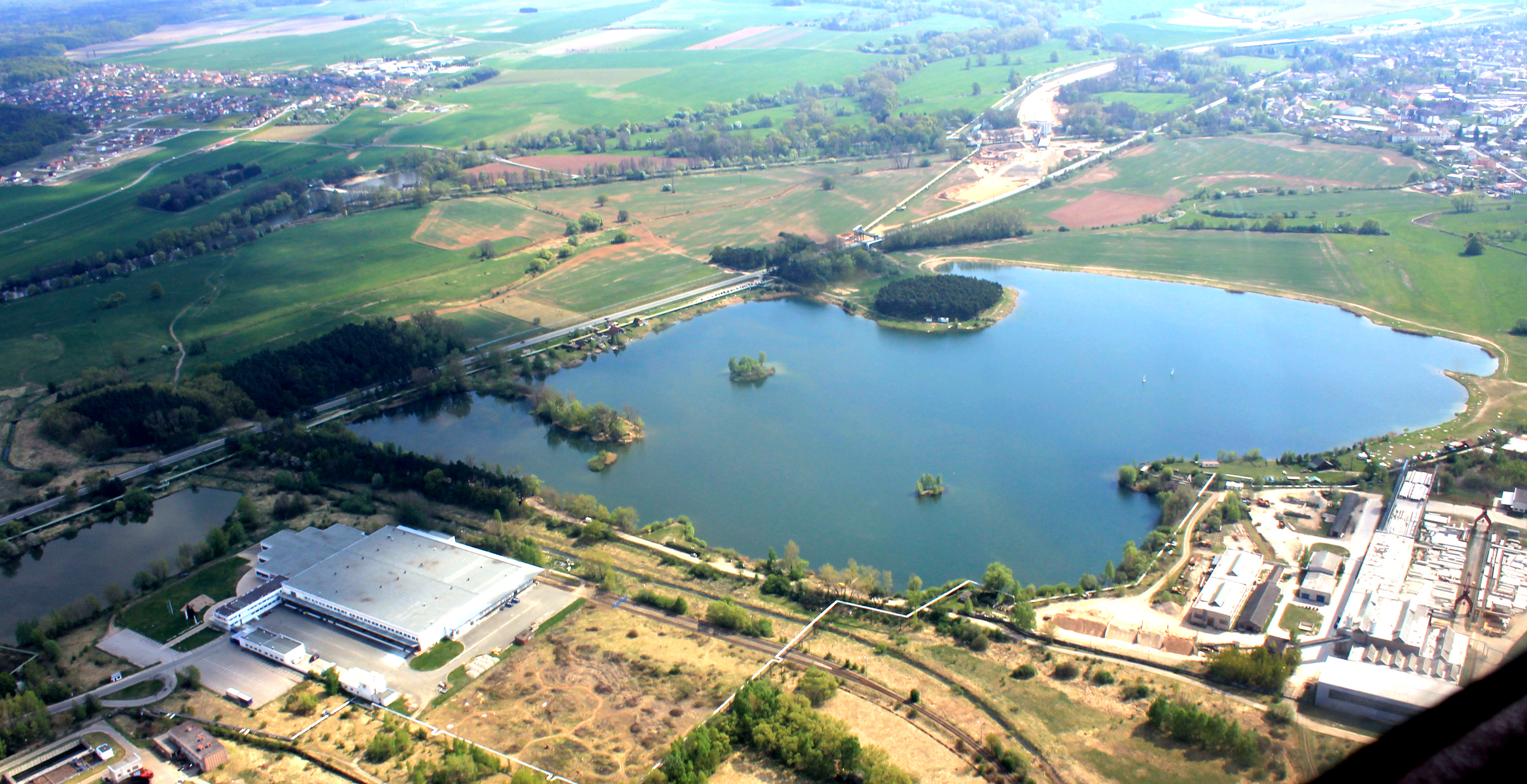 Pond Opaťák near of village Opatovice nad Labem from air, eastern Bohemia, Czech Republic